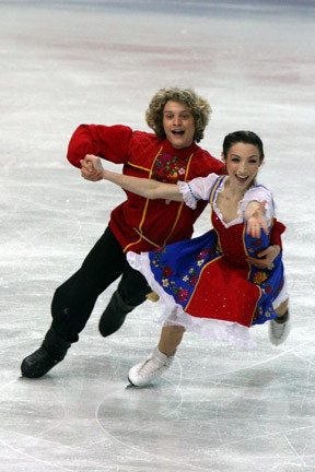 Meryl Davis and Charlie White at the the 2008 World Championships.